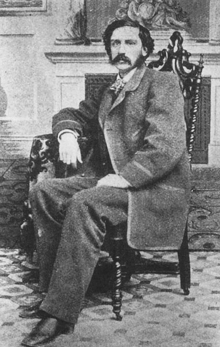 American author Bret Harte, probably about the time of his marriage in August 1862. First published in the Reader in July 1907. Scanned from Bret Harte: Opening the American Literary West by Gary Scharnhorst. University of Oklahoma Press, 2000: p. 22